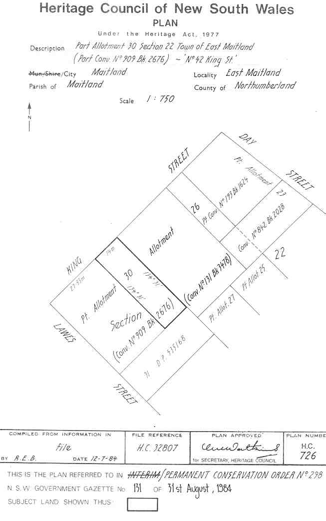 Goonoobah: PCO Plan Number 298